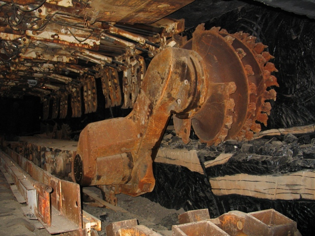 Tagliatrice__.